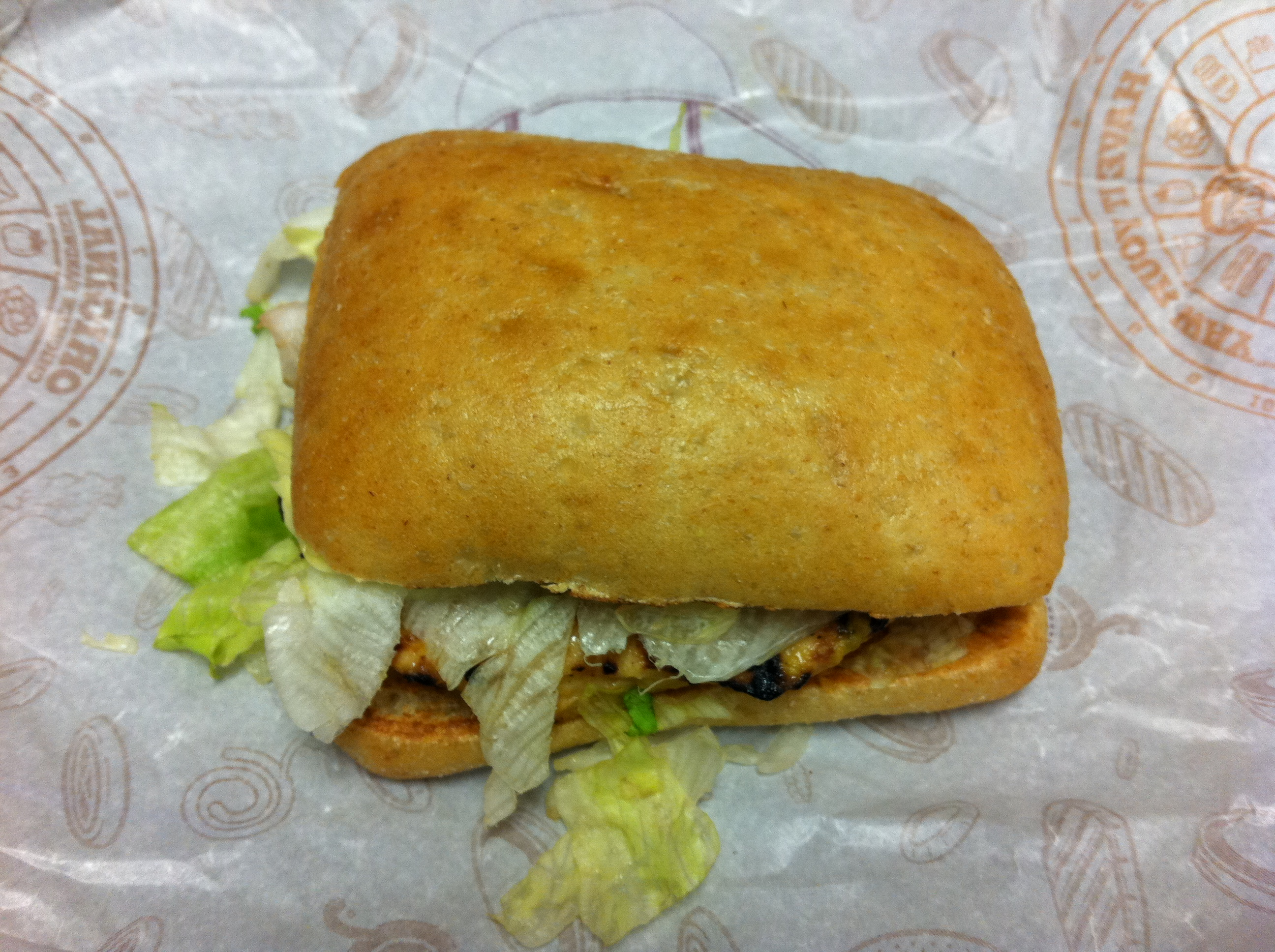 Burger King TenderGrill sandwich, updated version